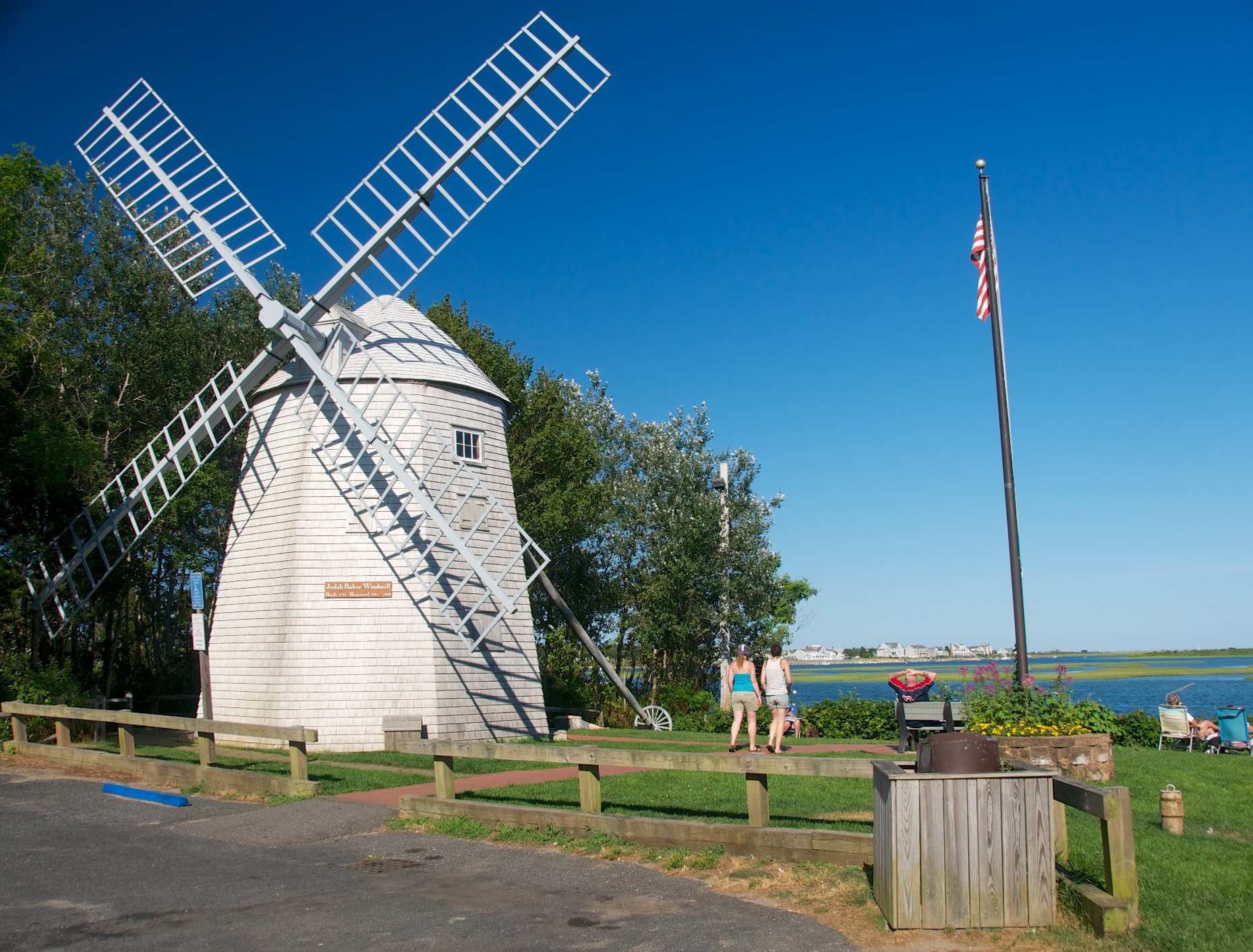 The historic Judah Baker Windmill is an icon of Bass River.